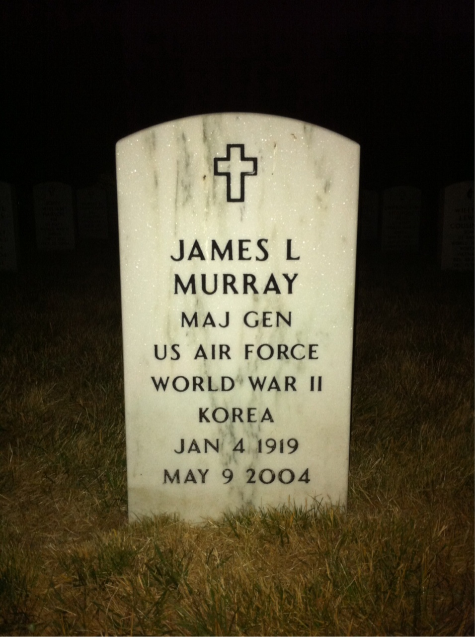 Grave of James Lore Murray at Arlington National Cemetery